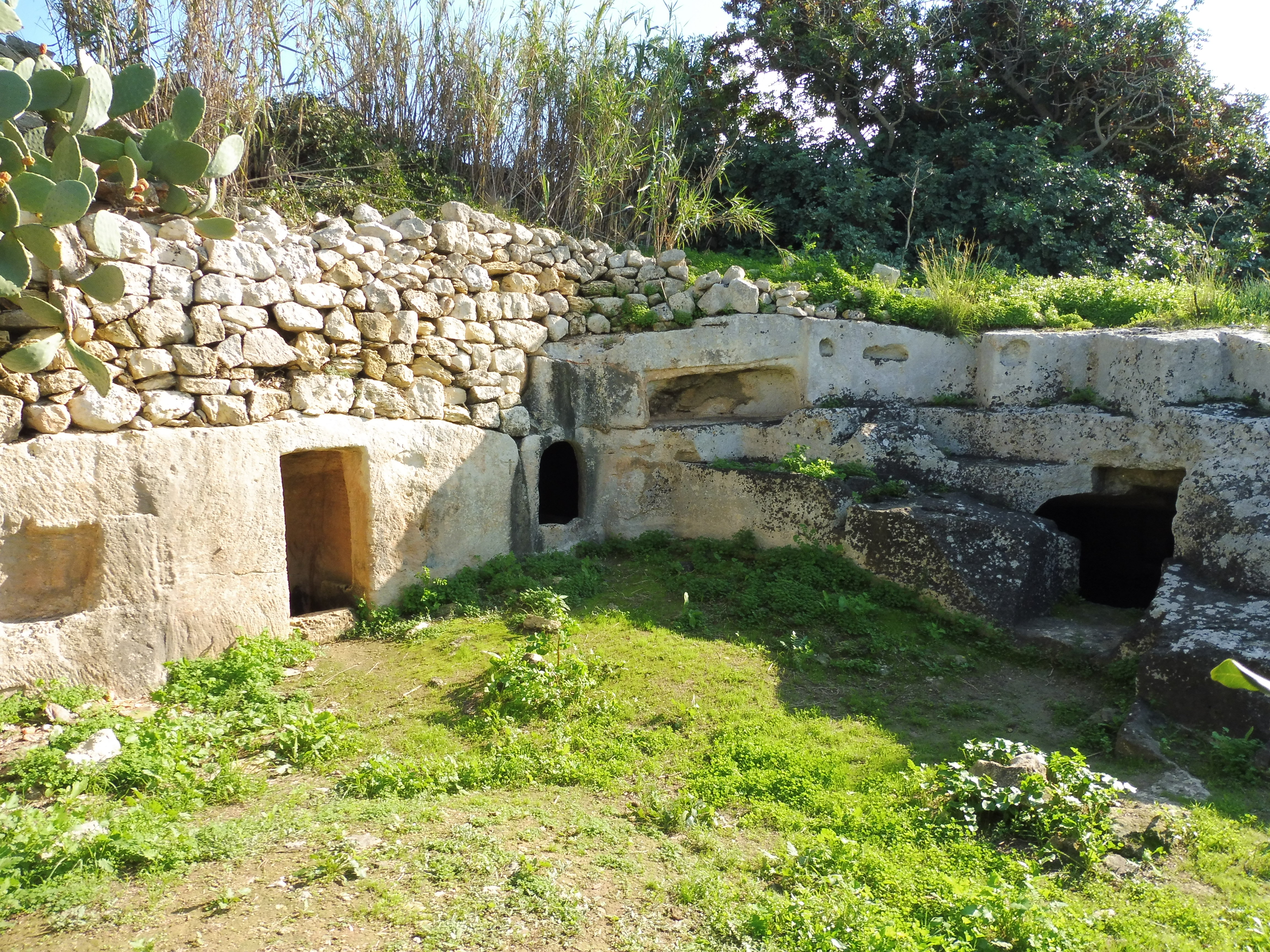 Entrances to the Salina Catacombs in Malta, south of Salina Bay (2019)